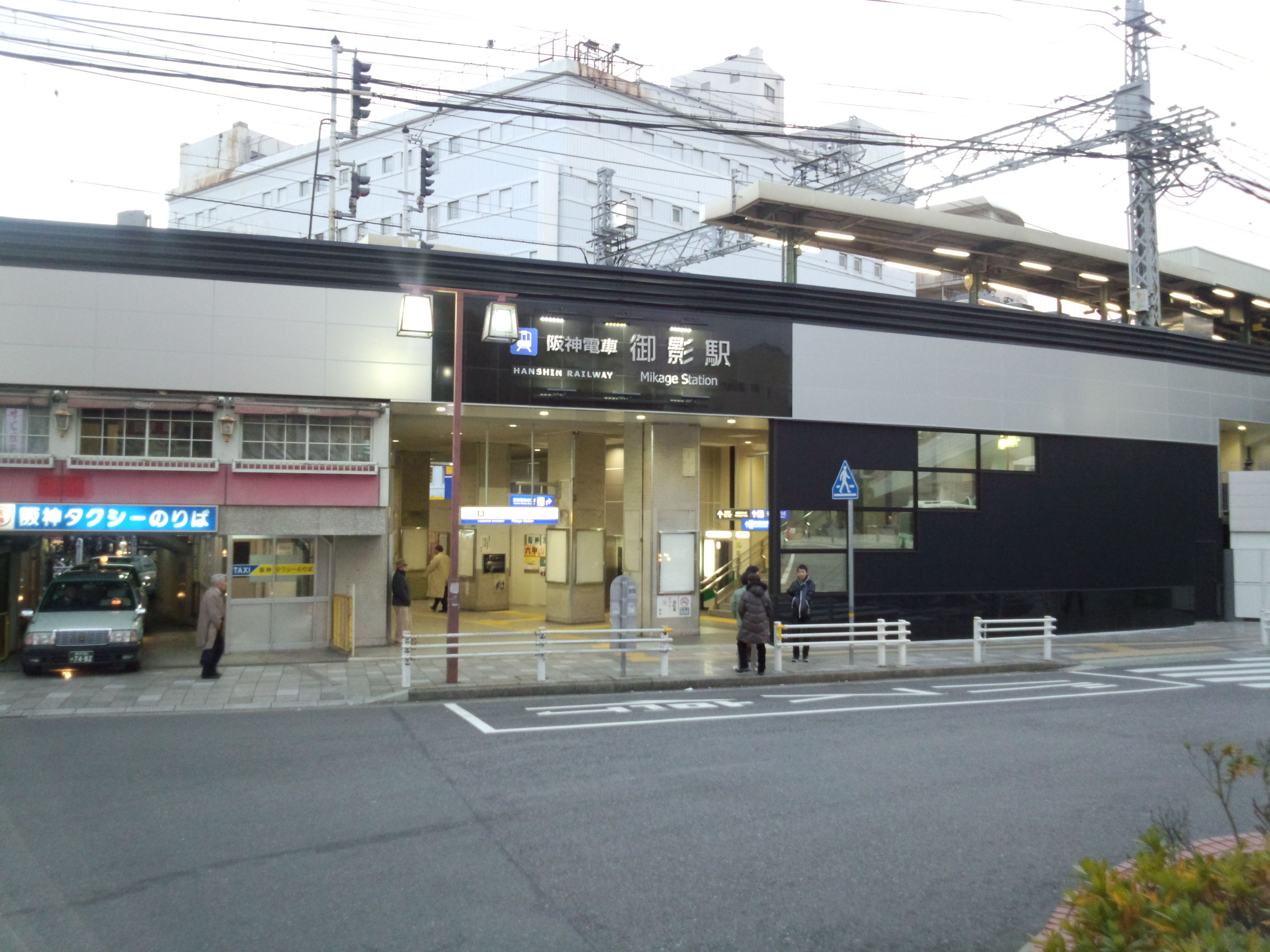 Hanshin Mikage Station north exit, after a renewal